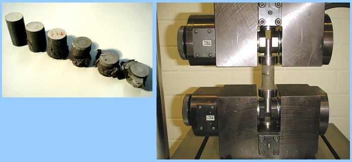 Characterization of mechanical properties in compression on a composite material. Visualization of standardized cylinders at various levels of compression (compression speed = 25 mm/min).